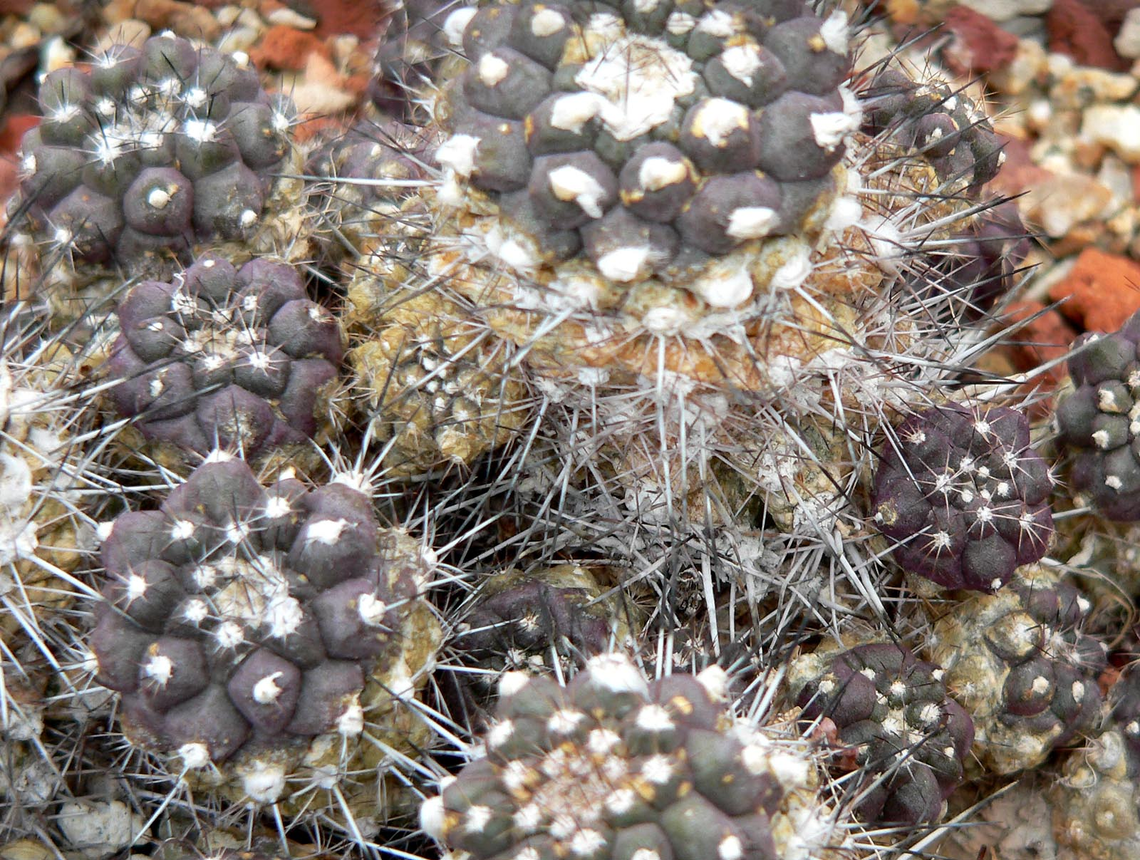 Photo of Copiapoa humilis at the University of California Botanical Garden